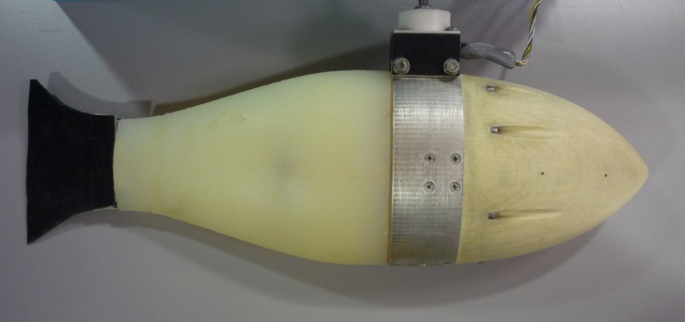 A robotic fish from the research project FILOSE. It has the shape of a rainbow trout. Head part is rigid, tail is soft.